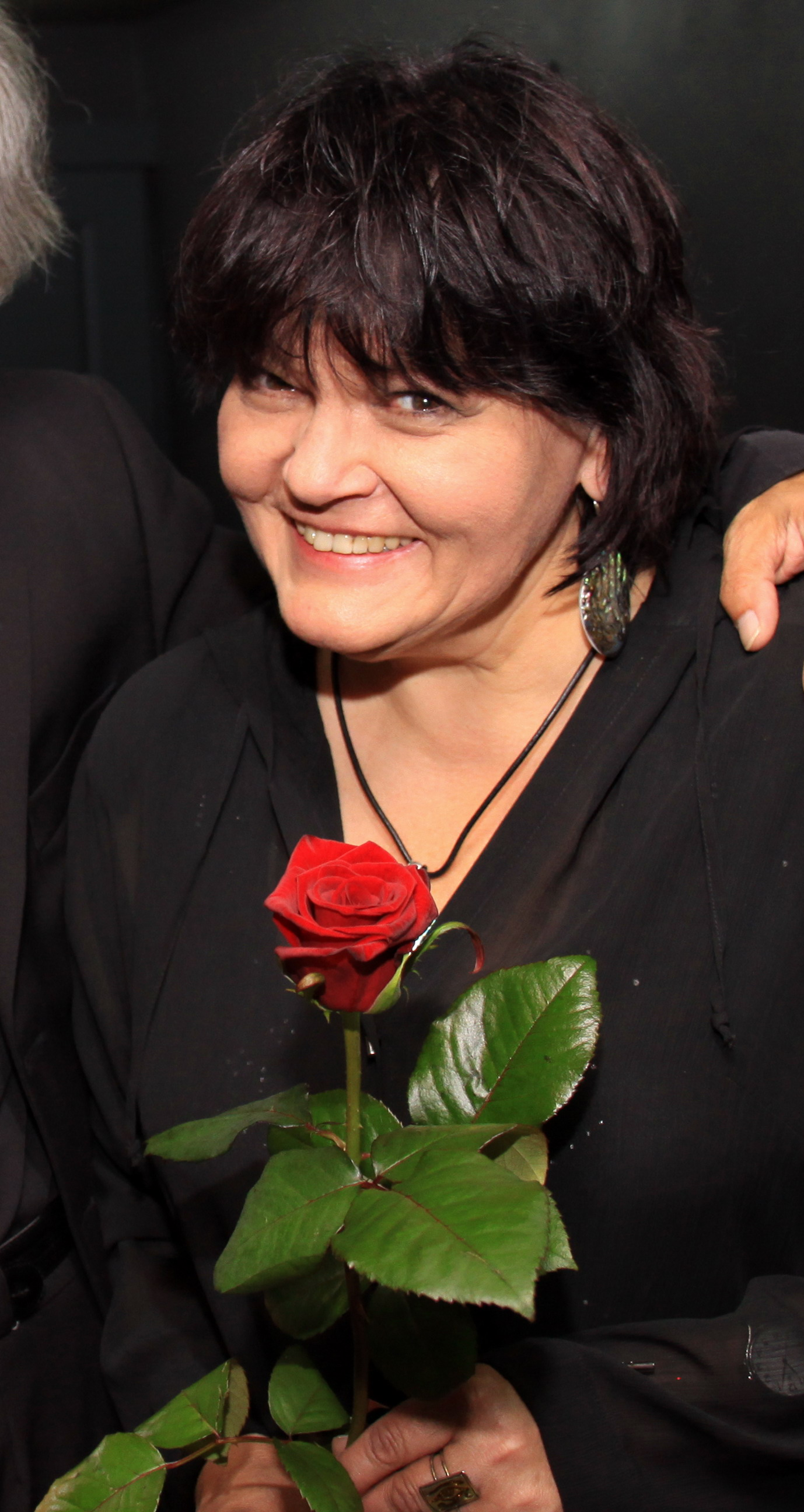 Elzbieta Adamiak - Polish singer, guitarist and songwriter from the circle of sung poetry. V OFP them. Wojtek Belon, Busko-Zdroj, 25 April 2012